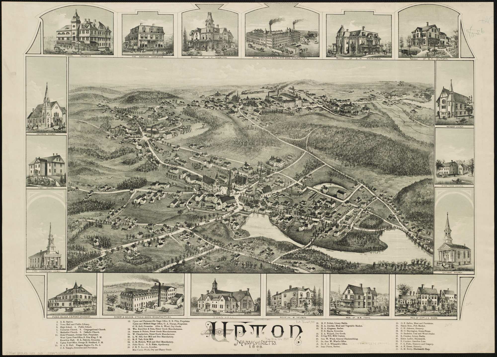 Zoom into this map at . Author: O.H. Bailey & Co. Publisher: O.H. Bailey Date: 1881. Location: Upton (Mass.) Scale: Not drawn to scale. Call Number: G3764.U59A3 1888.O43